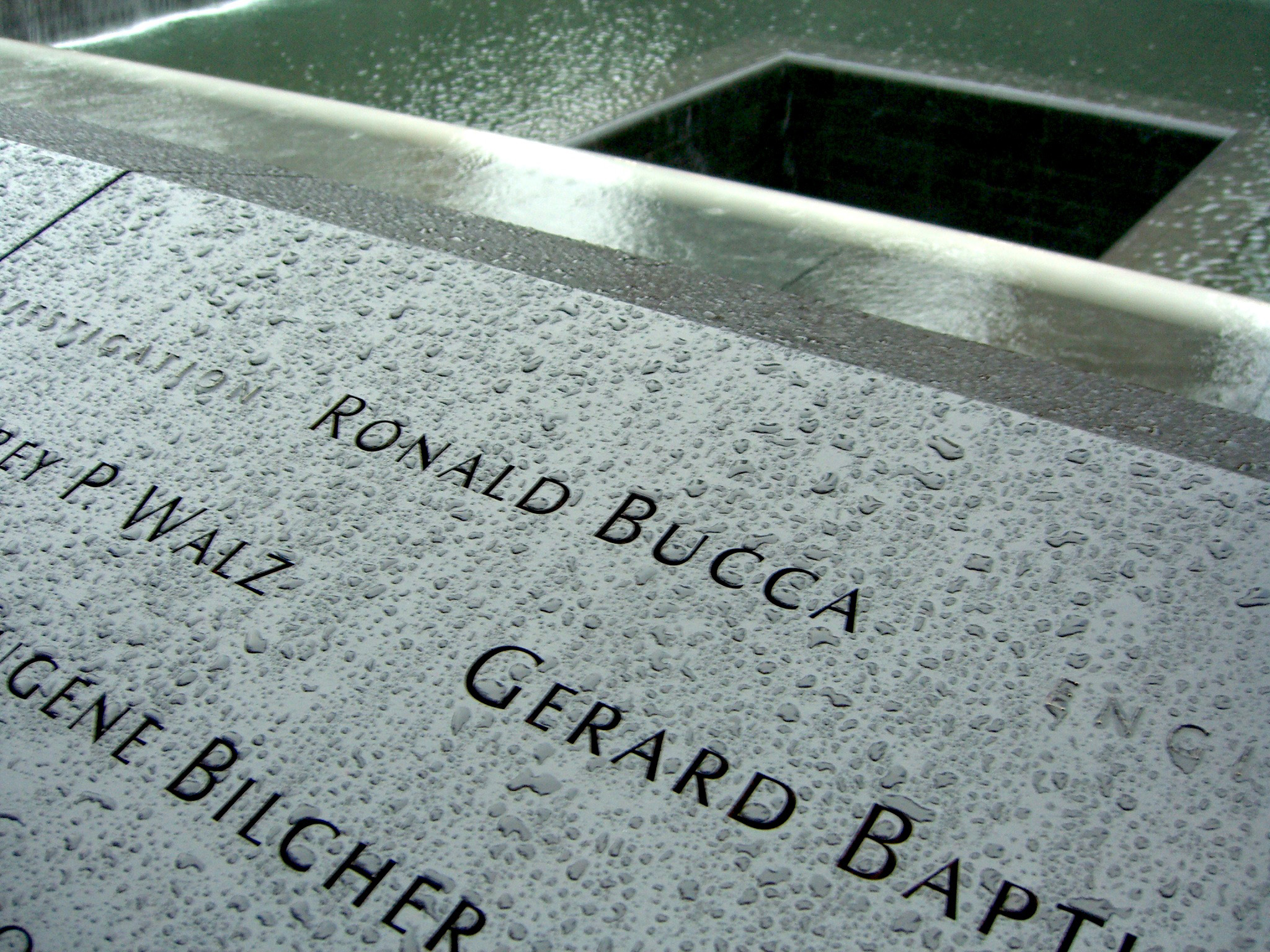 The name of Ronald Paul Bucca is seen among those of other first responders inscribed on bronze panel S-14 of the South Pool of the National September 11 Memorial in Manhattan, on December 6, 2011. This photo was created by Luigi Novi. If you have any questions, you can contact me by sending me an email or User talk:Nightscream